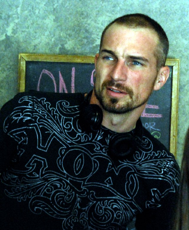 Writer/director Danny Buday on-set of the feature film Five Star Day